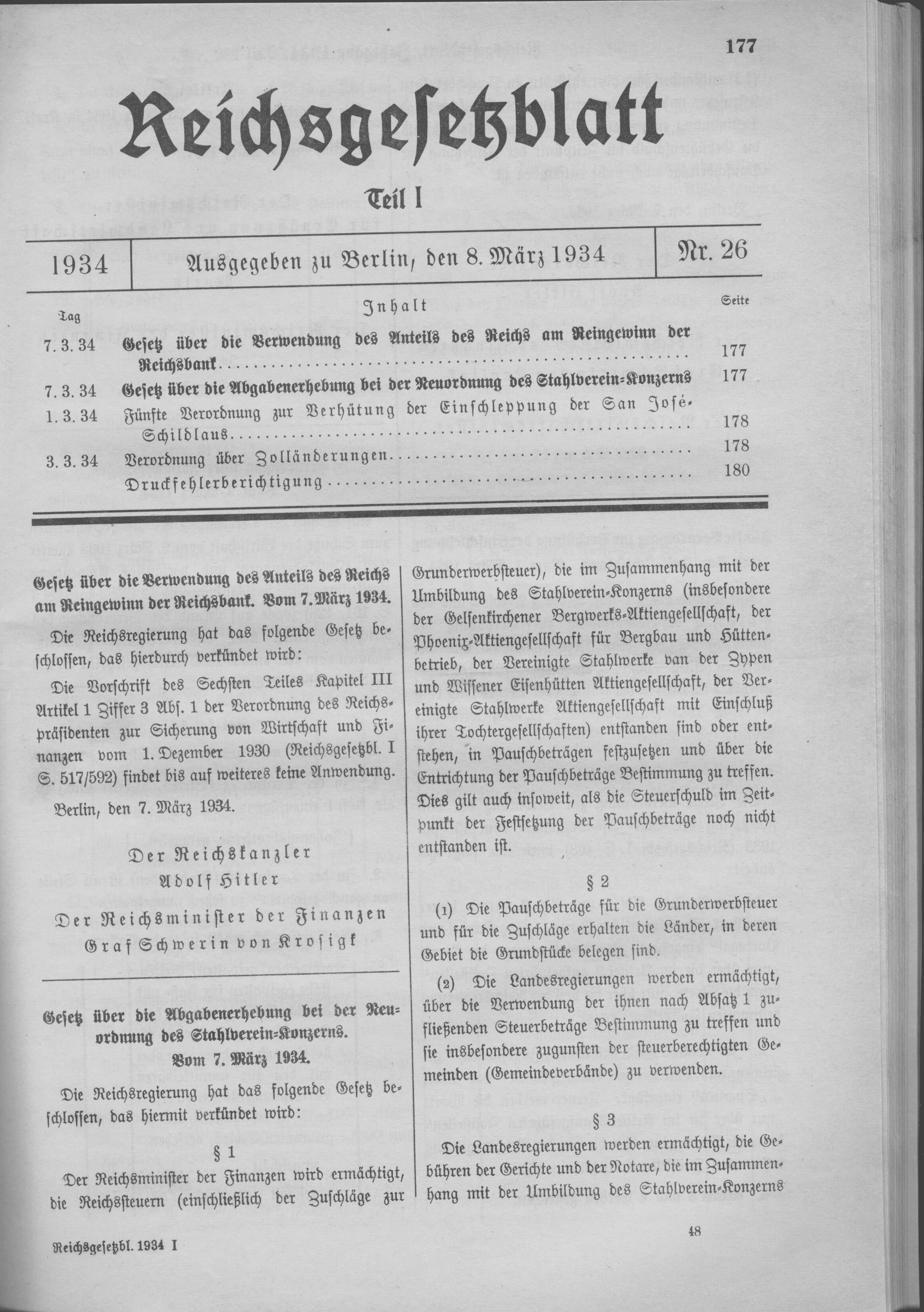 Scan from the Imperial Law Gazette of Germany, 1934, part 1